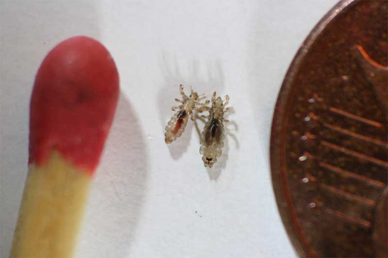 Pediculus humanus capitis (adult) male and female in comparison with a match and a 1 eurocent coin (diameter 16,25 mm)